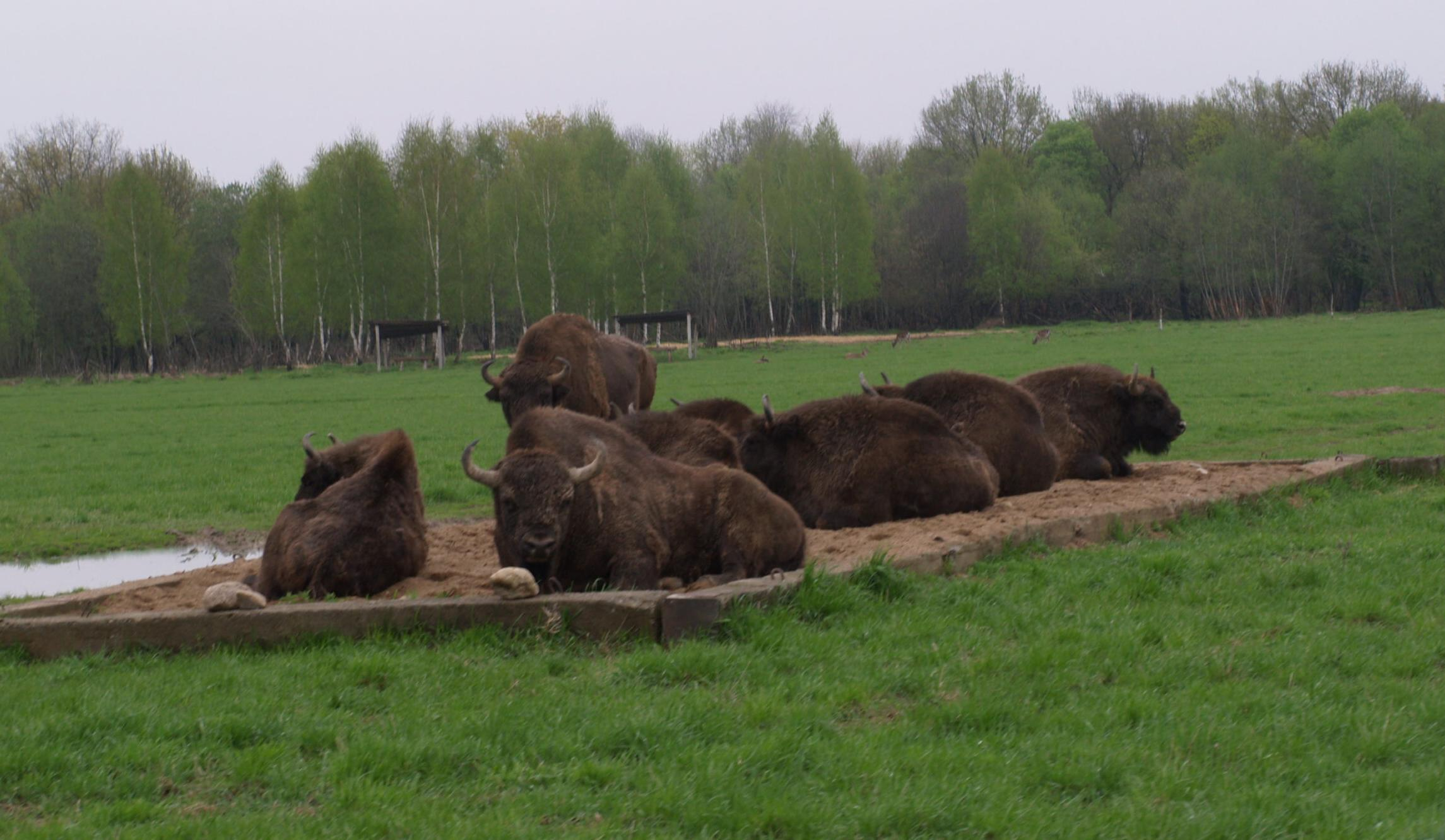 Mogilev Zoo Bisons